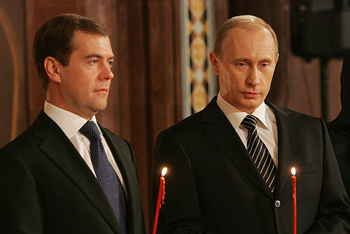 CATHEDRAL OF CHRIST THE SAVIOUR, MOSCOW. At the midnight Easter service.